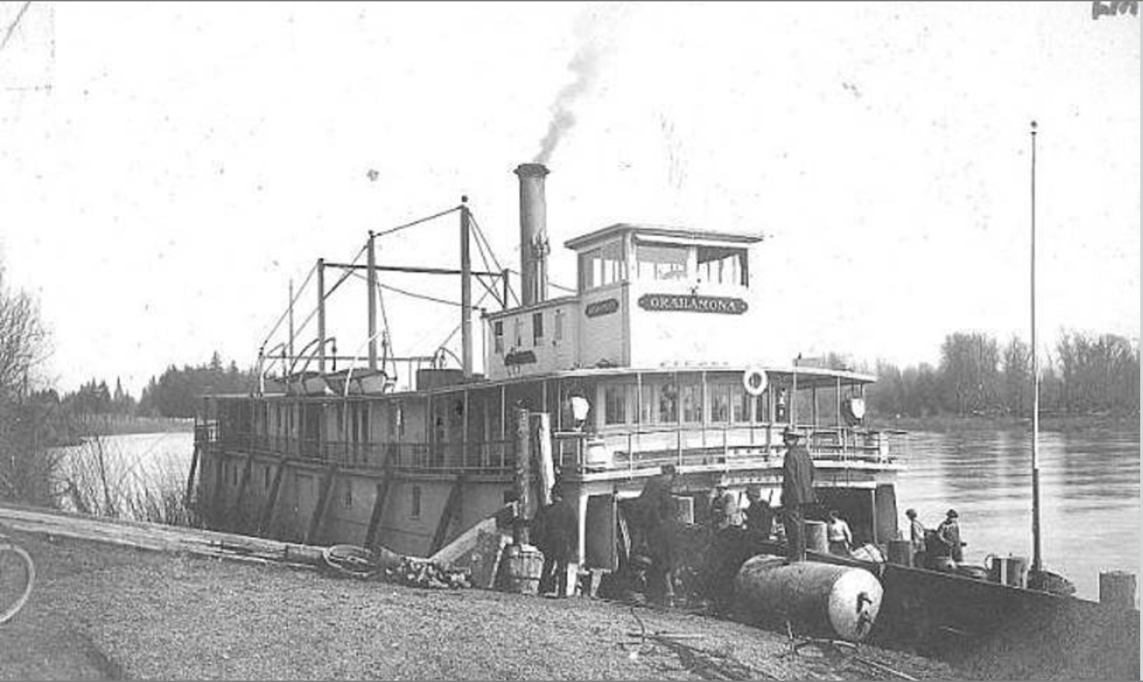 Grahamona, on the Willamette River, probably at or near Salem, Oregon, sometime between 1912 and 1918.